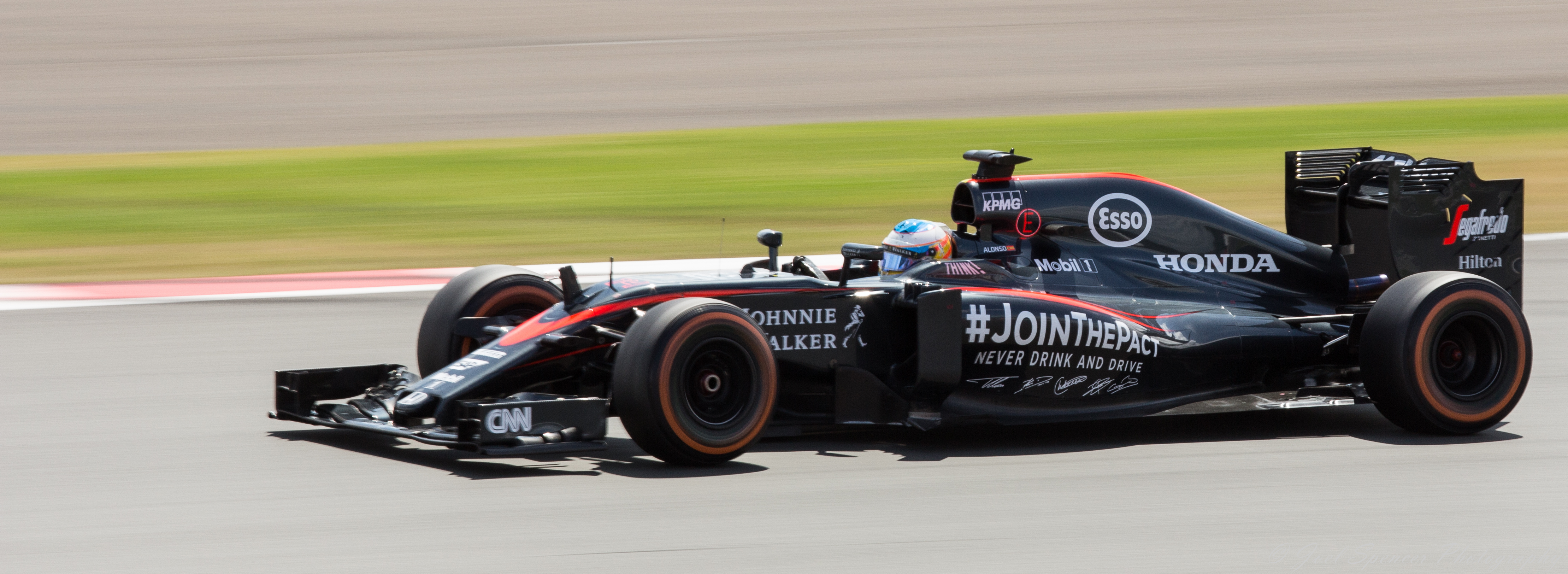 Fernando Alonso at the 2015 British Grand Prix